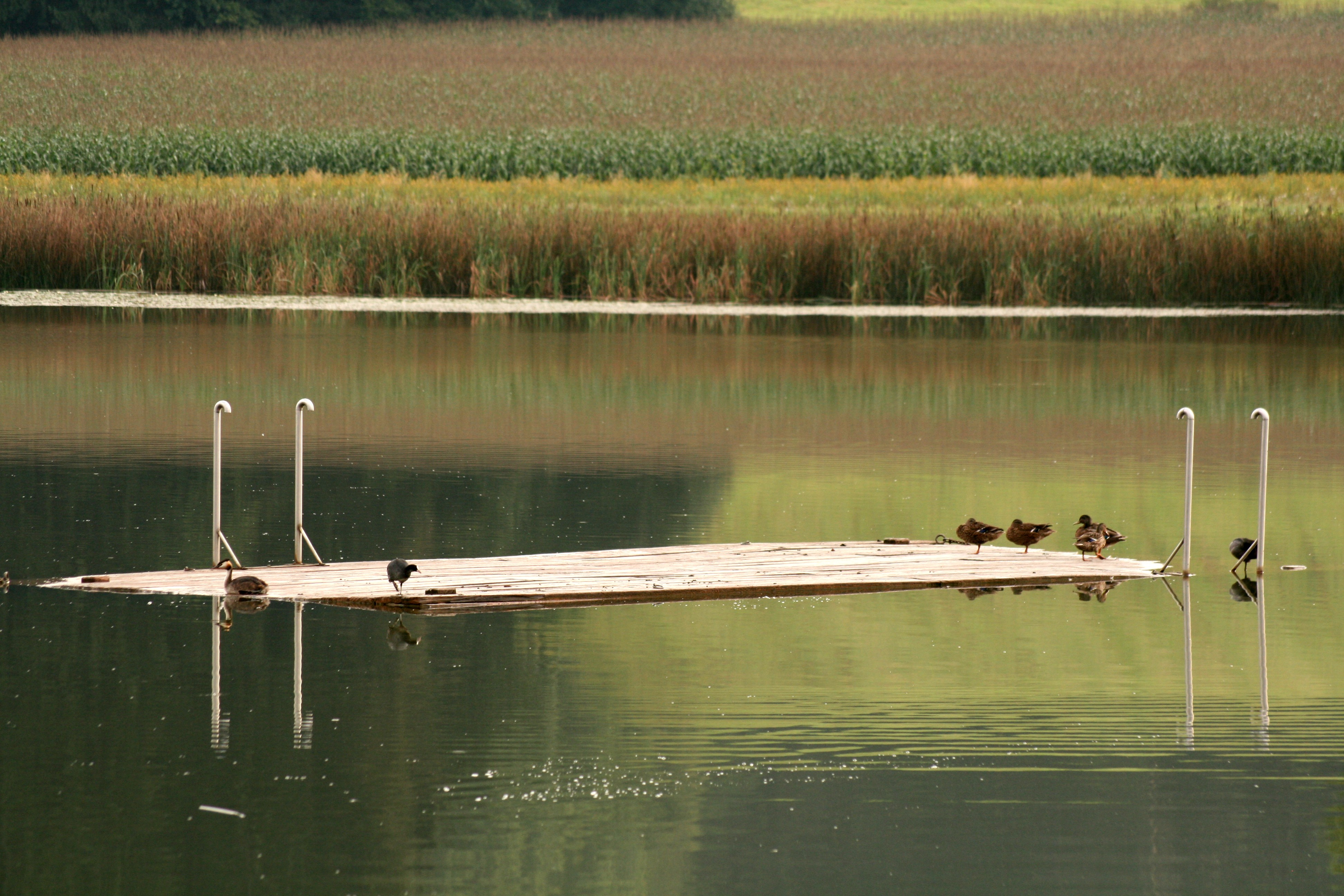 Furtner Teich in Styria, Austria